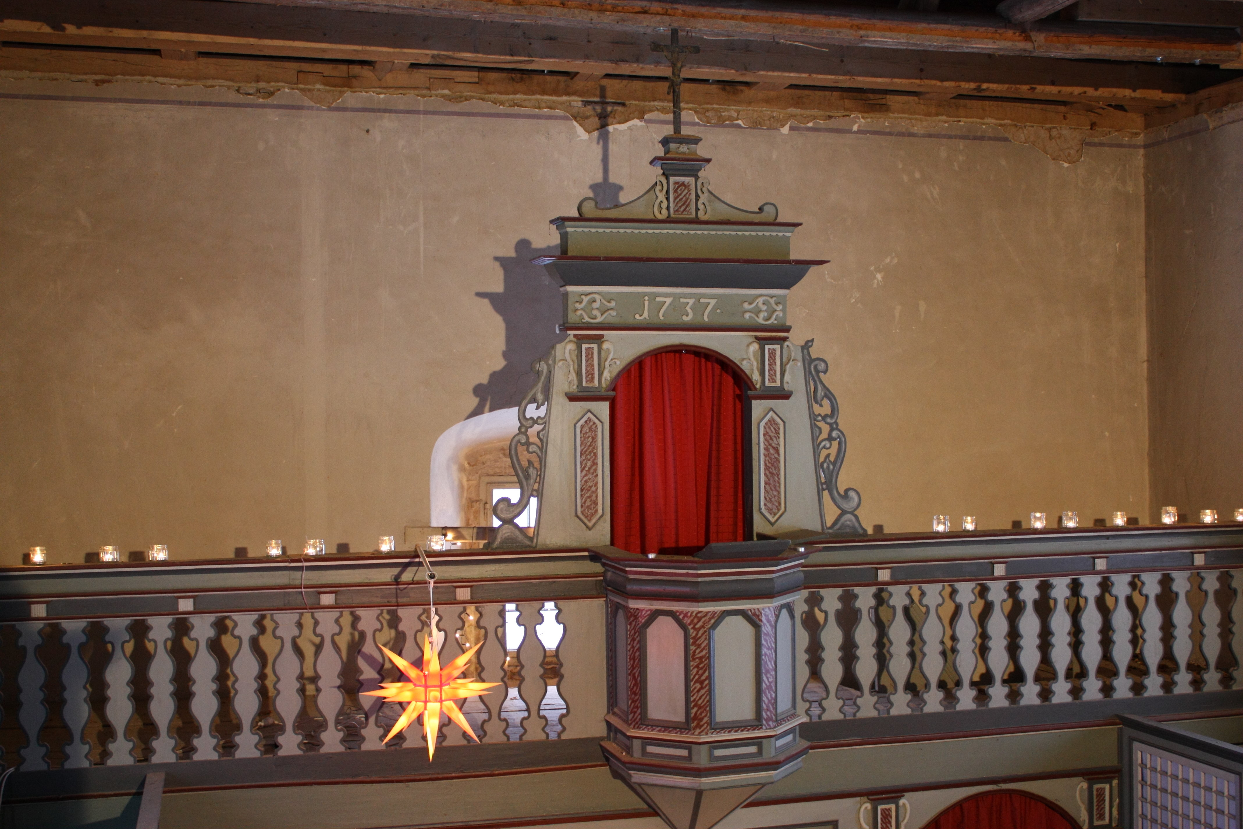 church at Heteborn in Middle-Germany